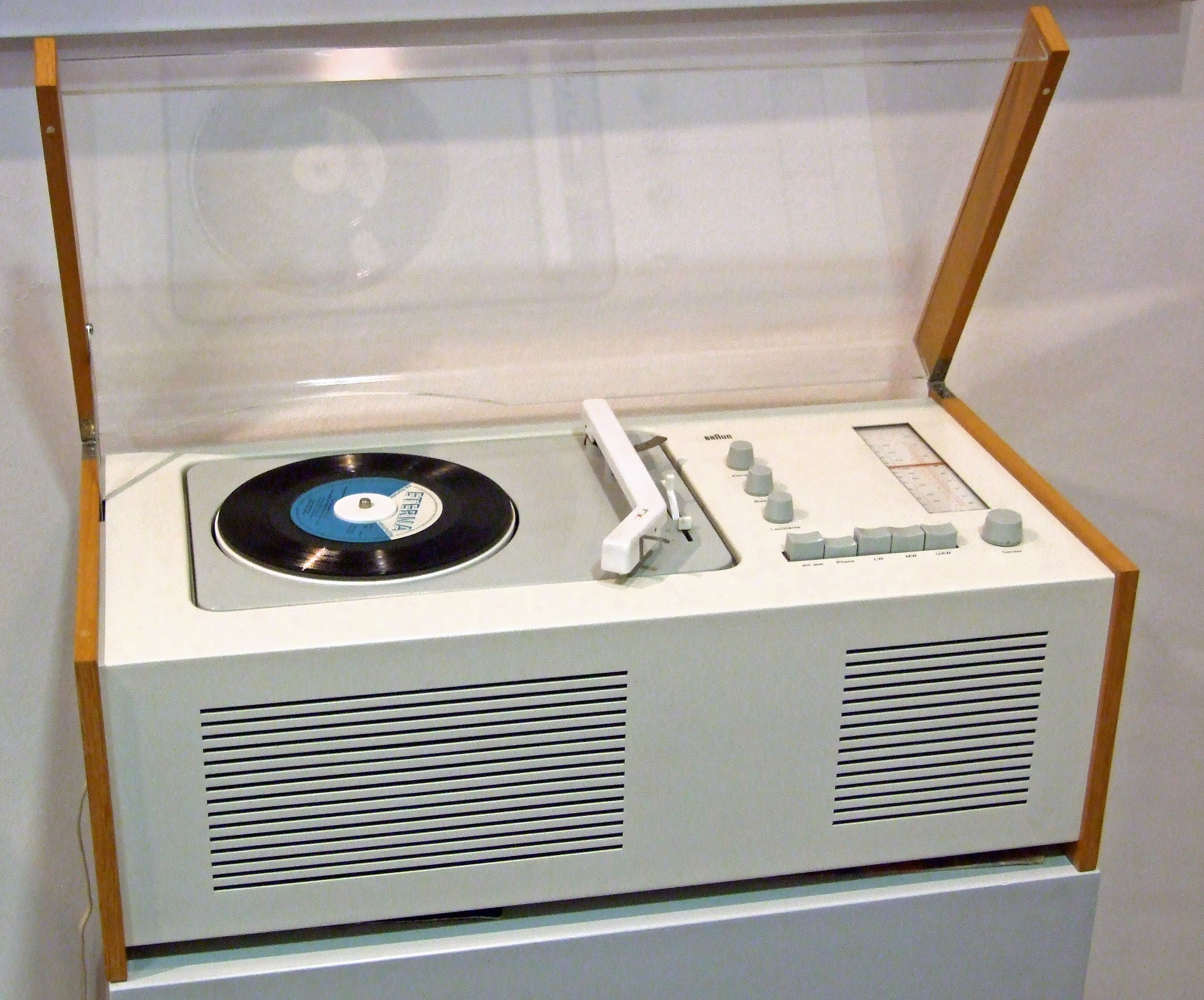 Phonosuper, Make: Braun, Type: SK6 (or SK 61). So-called Snow white casket. As seen at the Braun Collection in Kronberg, Germany